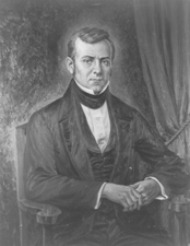 William Lee Davidson Ewing, (1795 - 1846) Senate Years of Service: 1835-1837